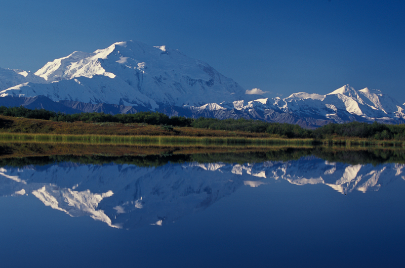 Denali (Mt. McKinley) from Reflection Pond in Denali National Park.